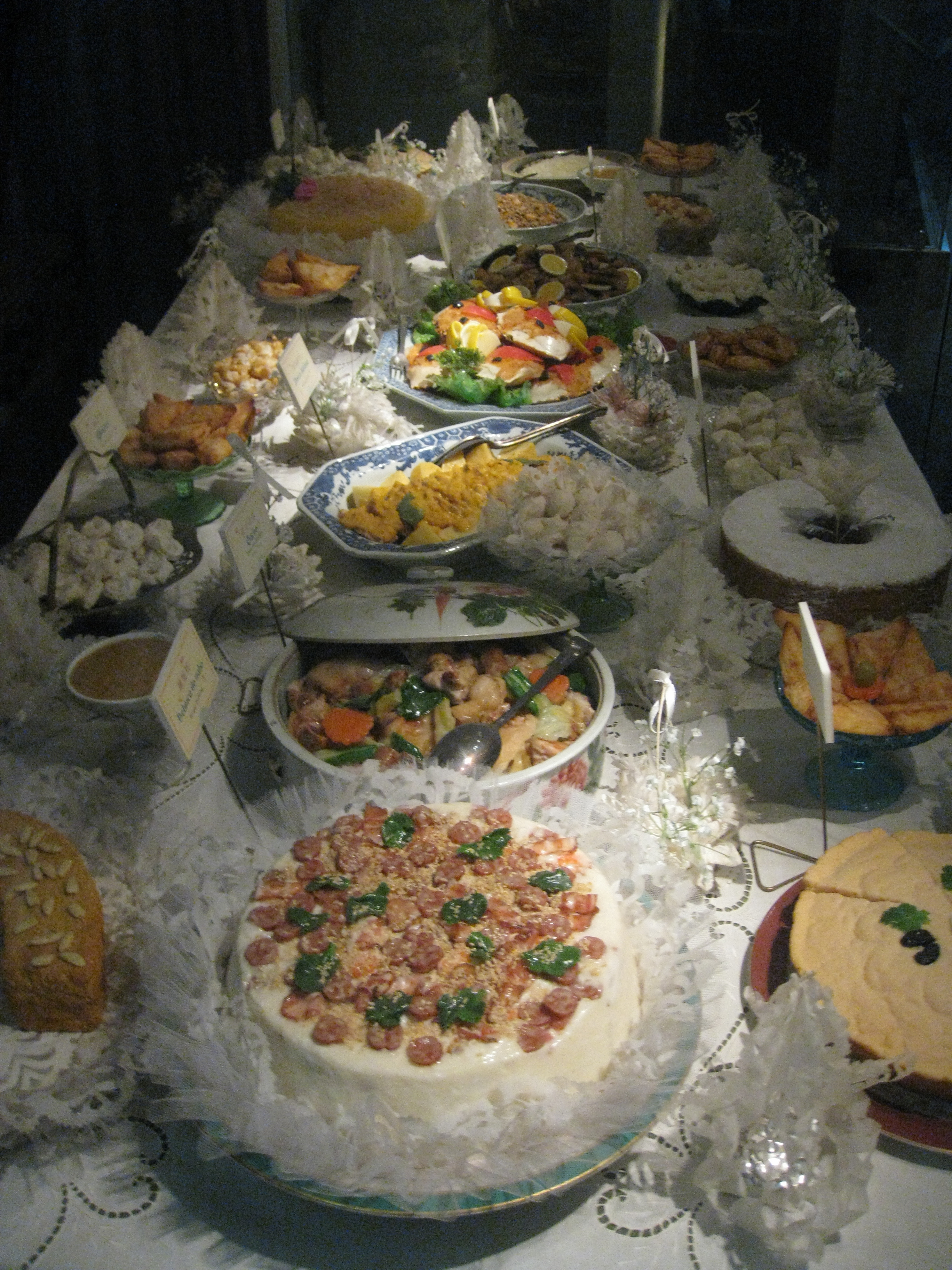 Cuisine of Macau - Exhibits in the Museum of Macau